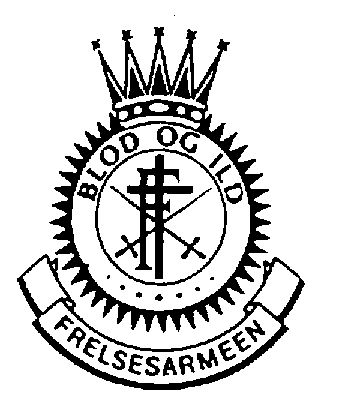 Frelsesarmeens krone